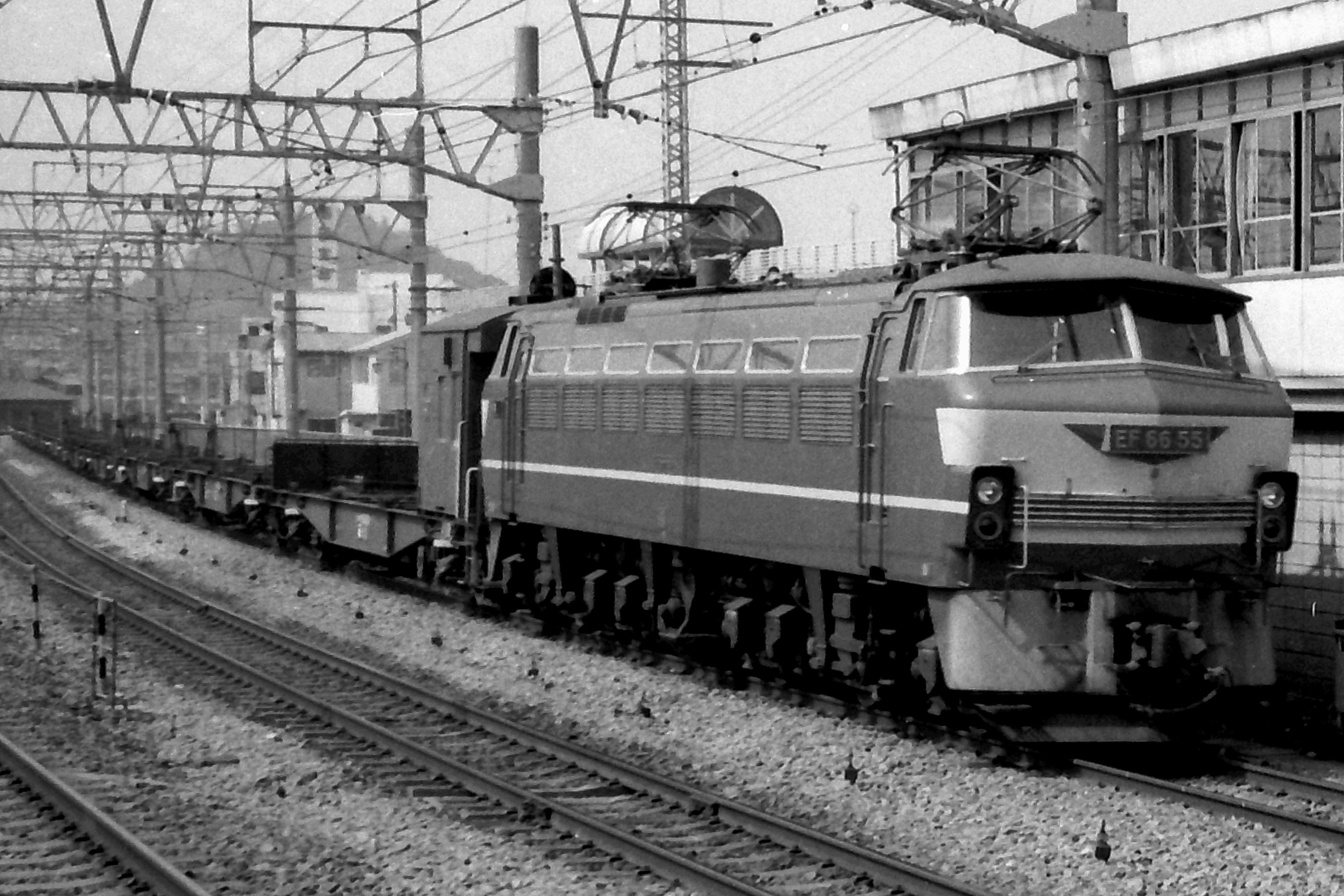 A container freight train, even though it was empty passing Ofuna station hauled by EF66 55. A Kokifu 50000 which had a cabin for train guards was on the next to the engine